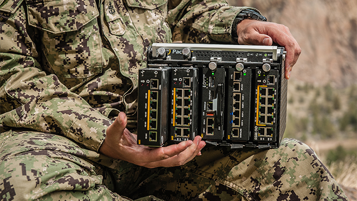 PacStar 400-Series ruggedized module used for a variety of military and commercial applications. This image shows the size of a module incorporating a Cisco router in context of its intended application.